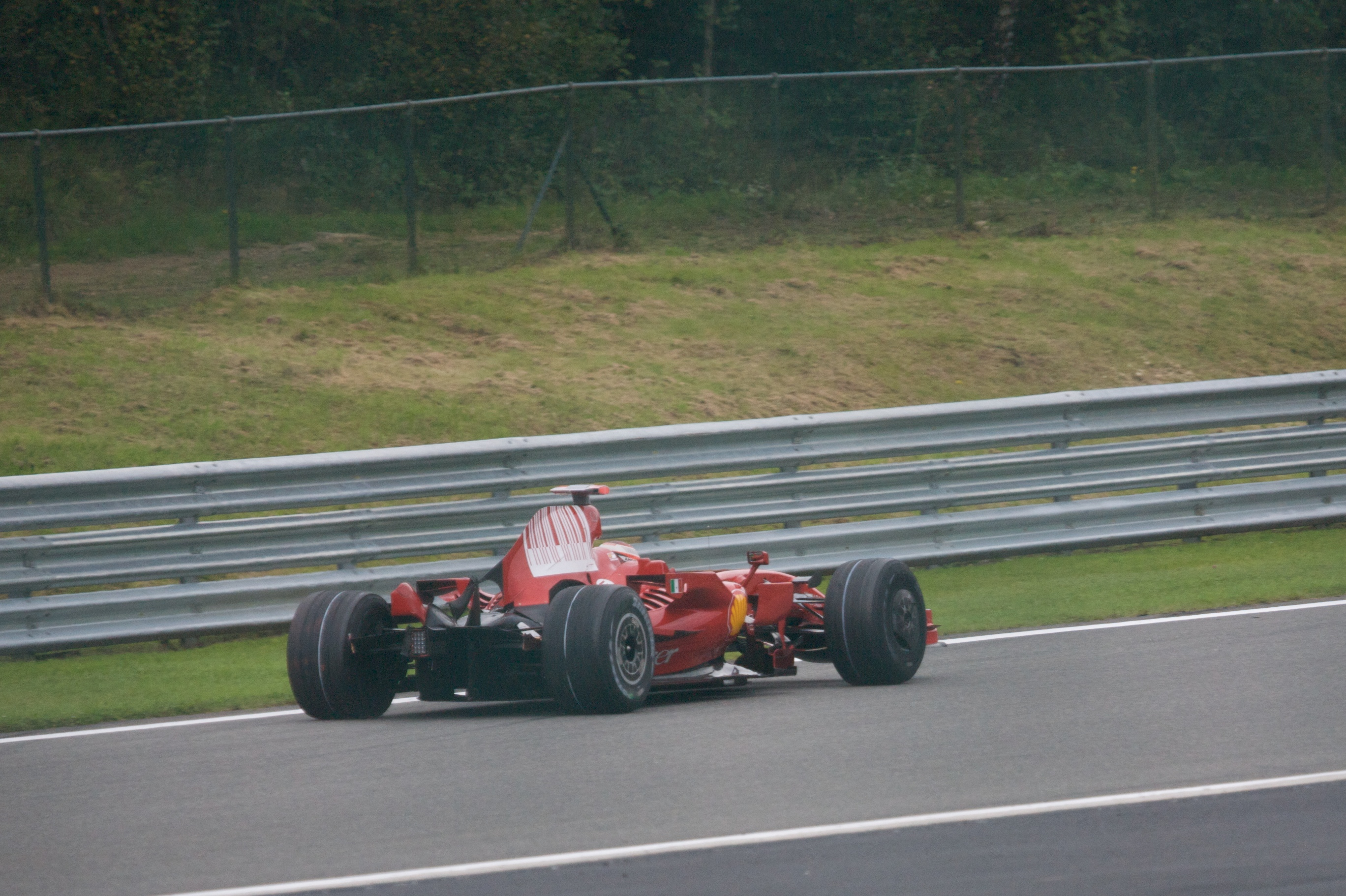 Kimi Räikkönen tours back to the pits after damaging his Ferrari during free practice for the 2008 Belgian Grand Prix.